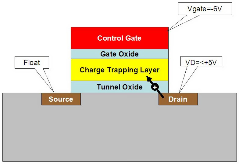 Cross section of a charge trapping memory cell being erased using hot hole injection